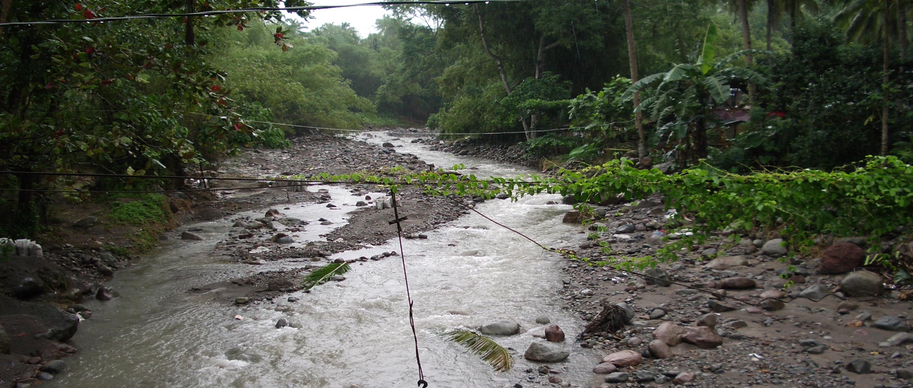 Hitunlob River after a downpour.